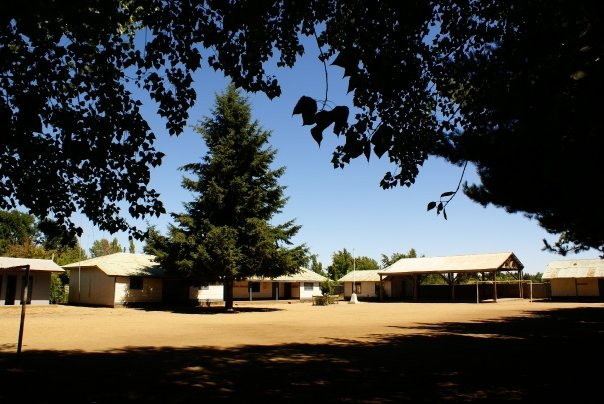 scds